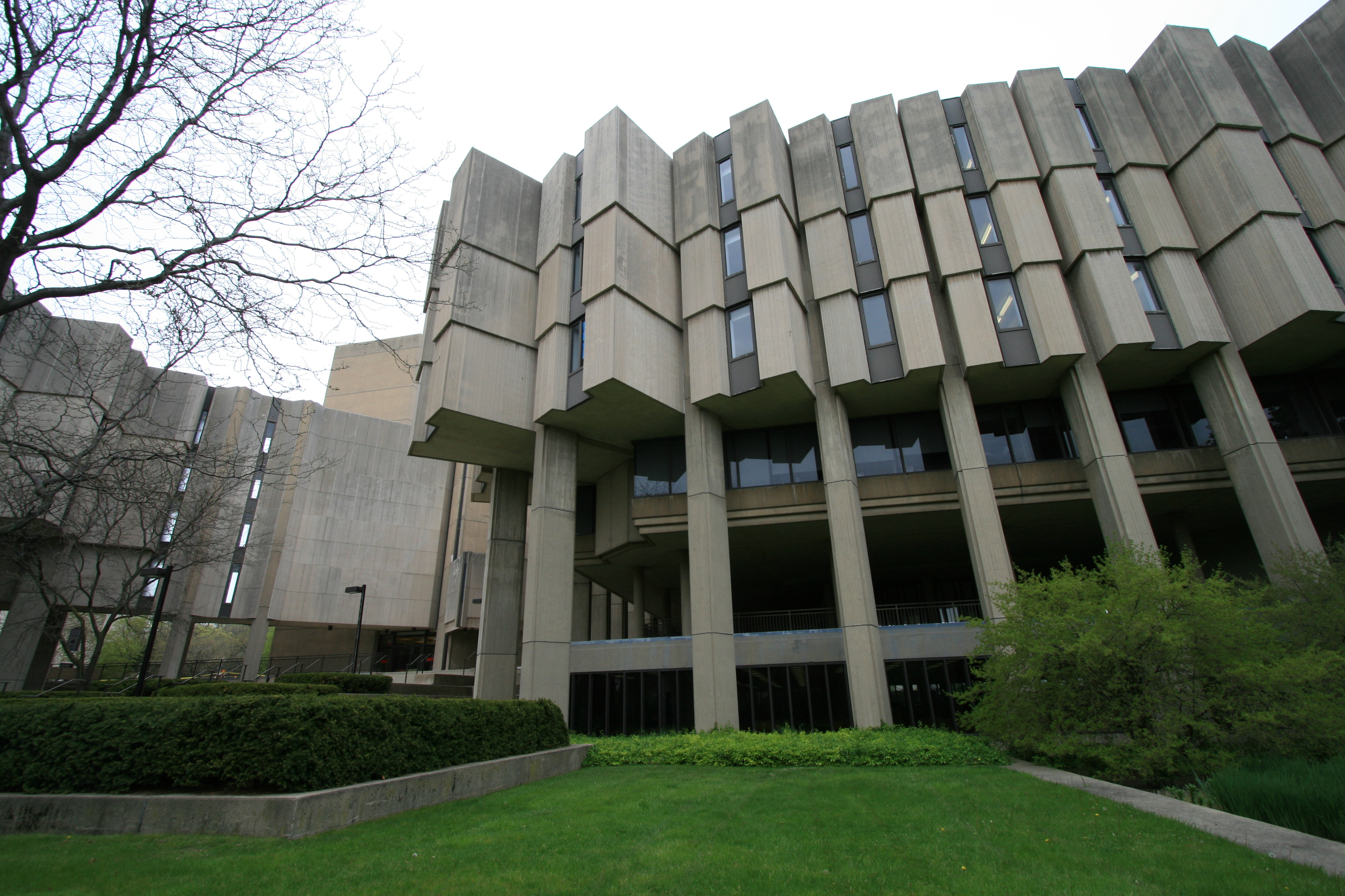 University Library